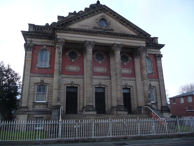 Newtown Baptist Chapel, Powys